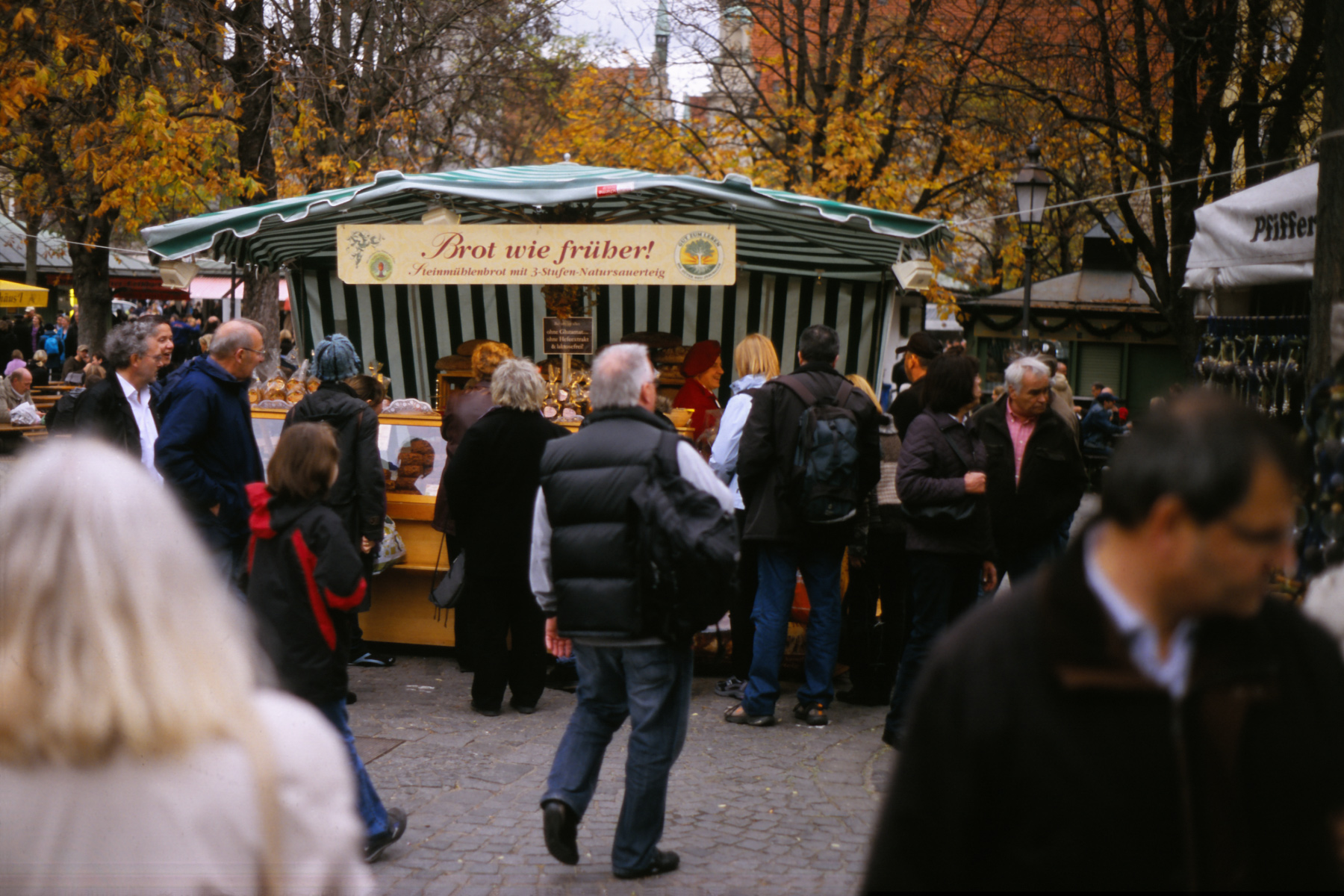 Sales stand of "Gut zum Leben" at the Viktualienmarkt in Munich